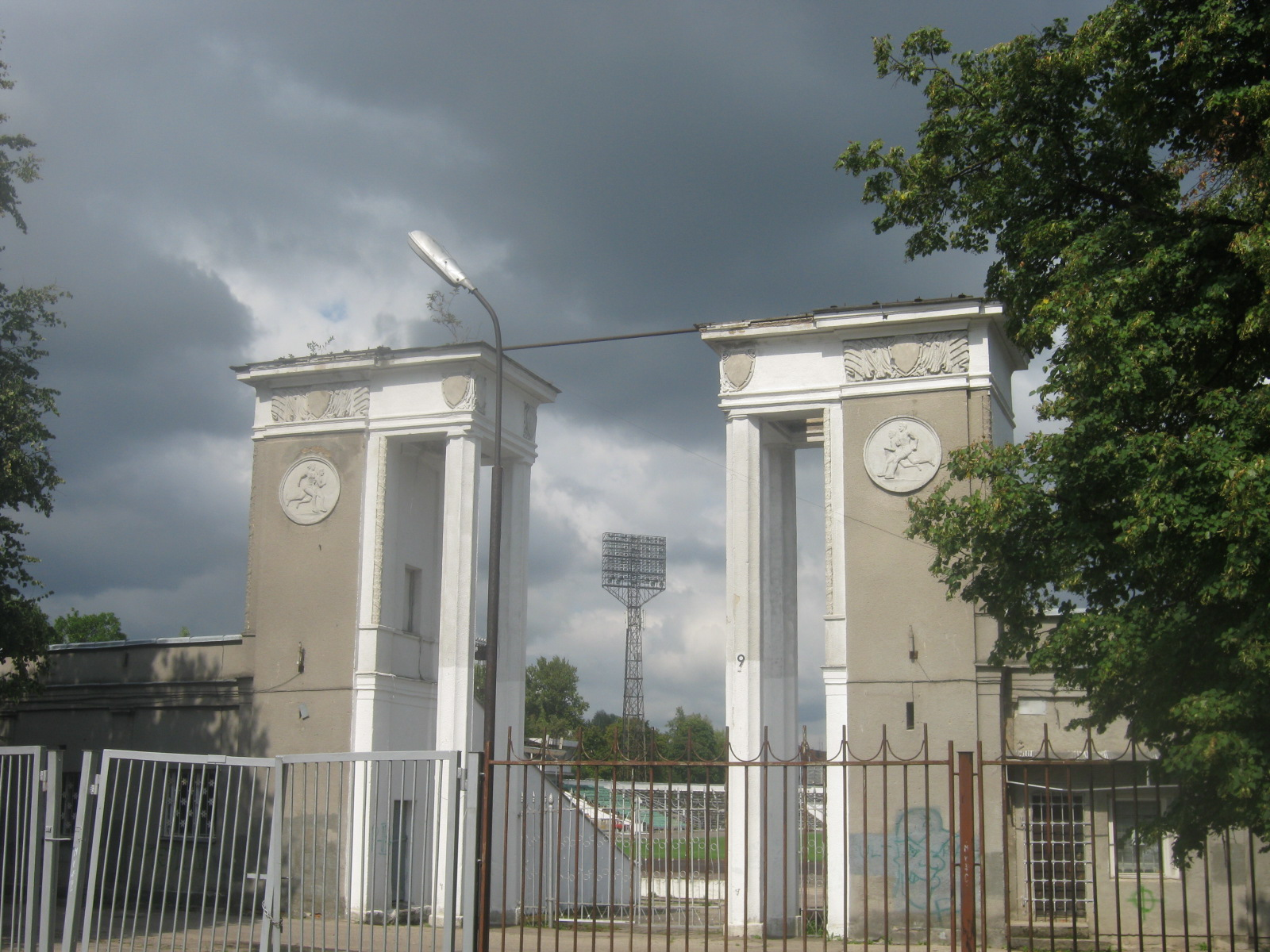 Žalgiris Stadium